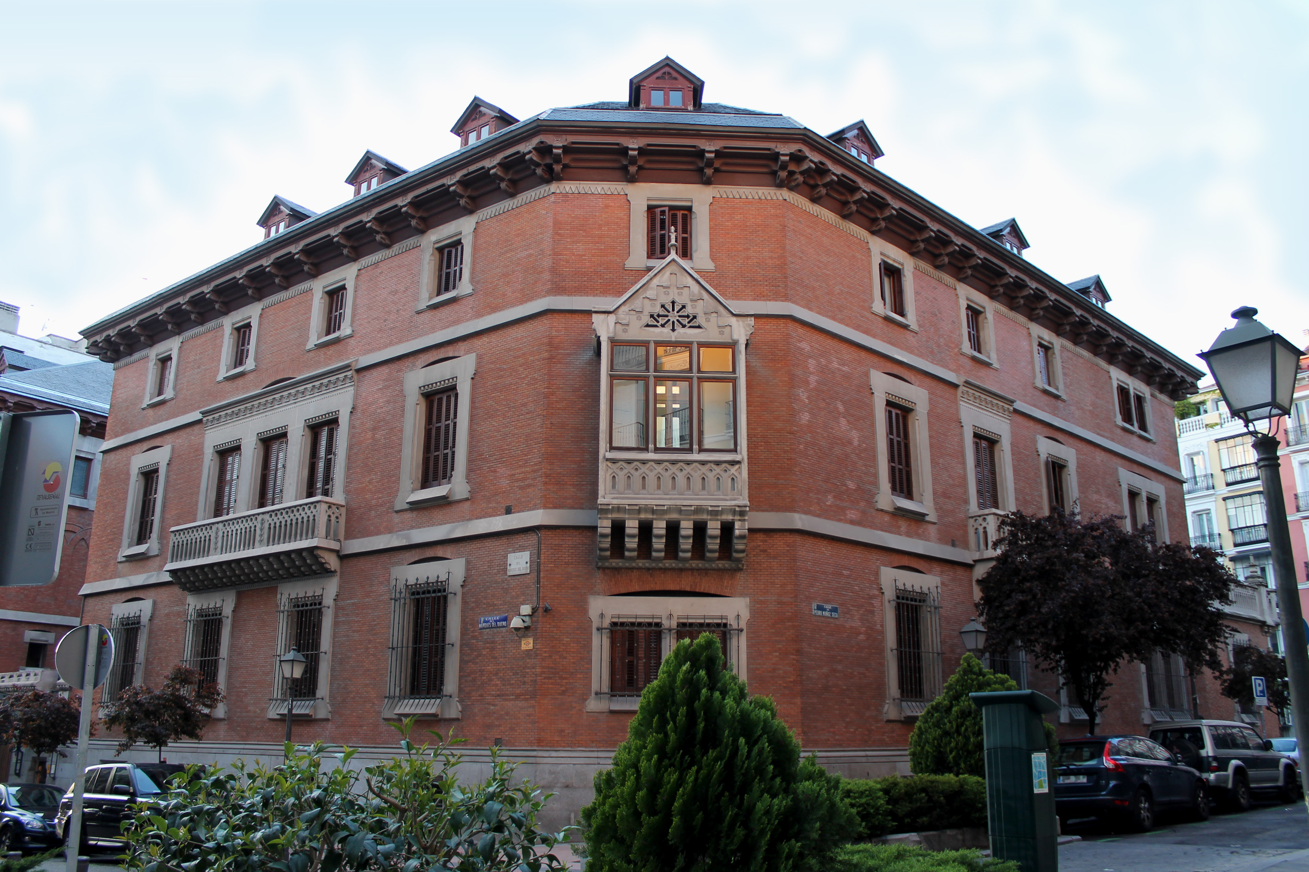 Façade of Palacio de Zabálburu in Madrid (Spain).